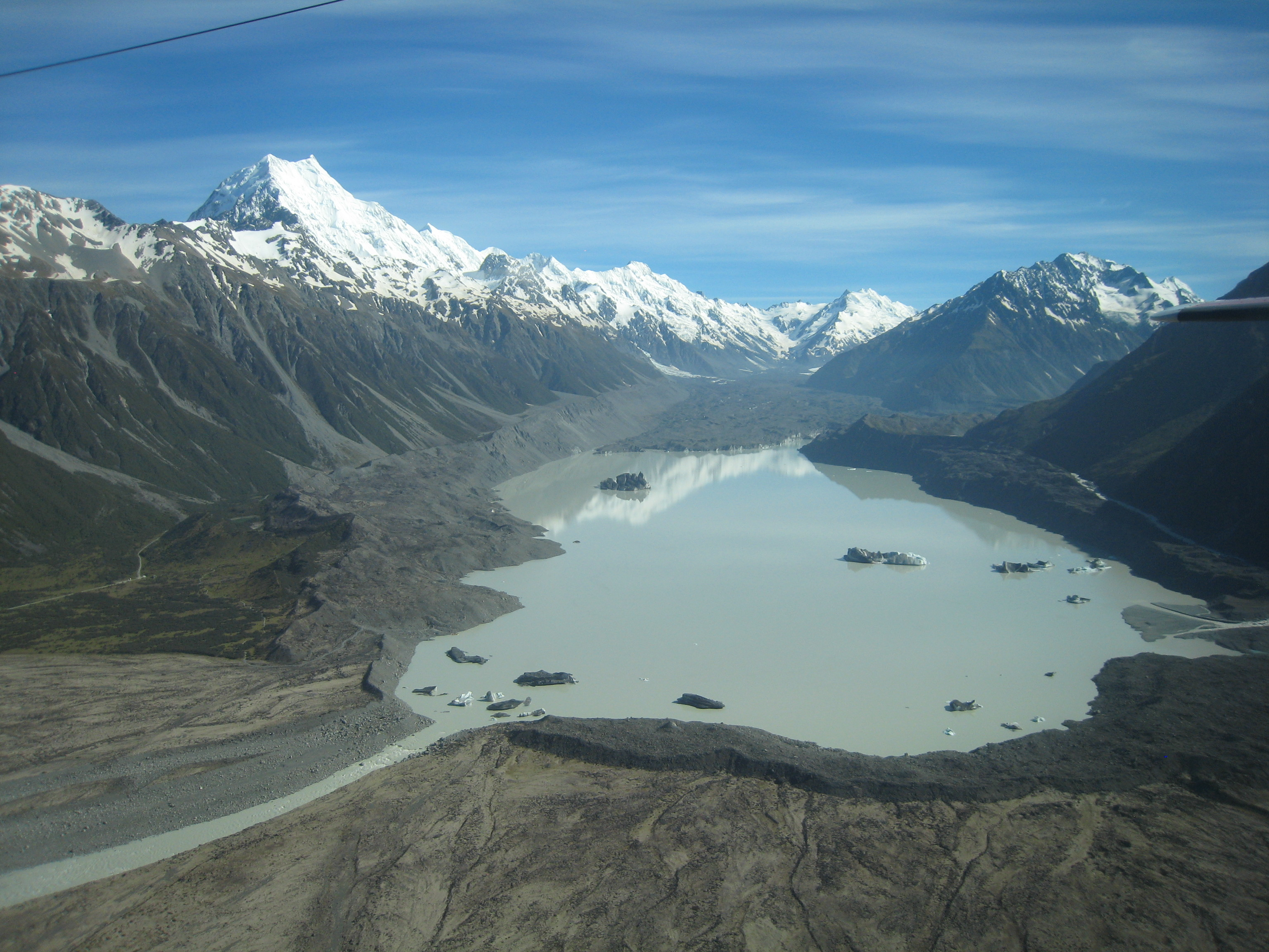 Aerial view of New Zealand's Tasman Lake, surrounded by the Tasman Glacier and its moraines. Aoraki/Mount Cook is behind on the left. The plane's tail can be seen on the right, and a guy wire is visible in the upper left.